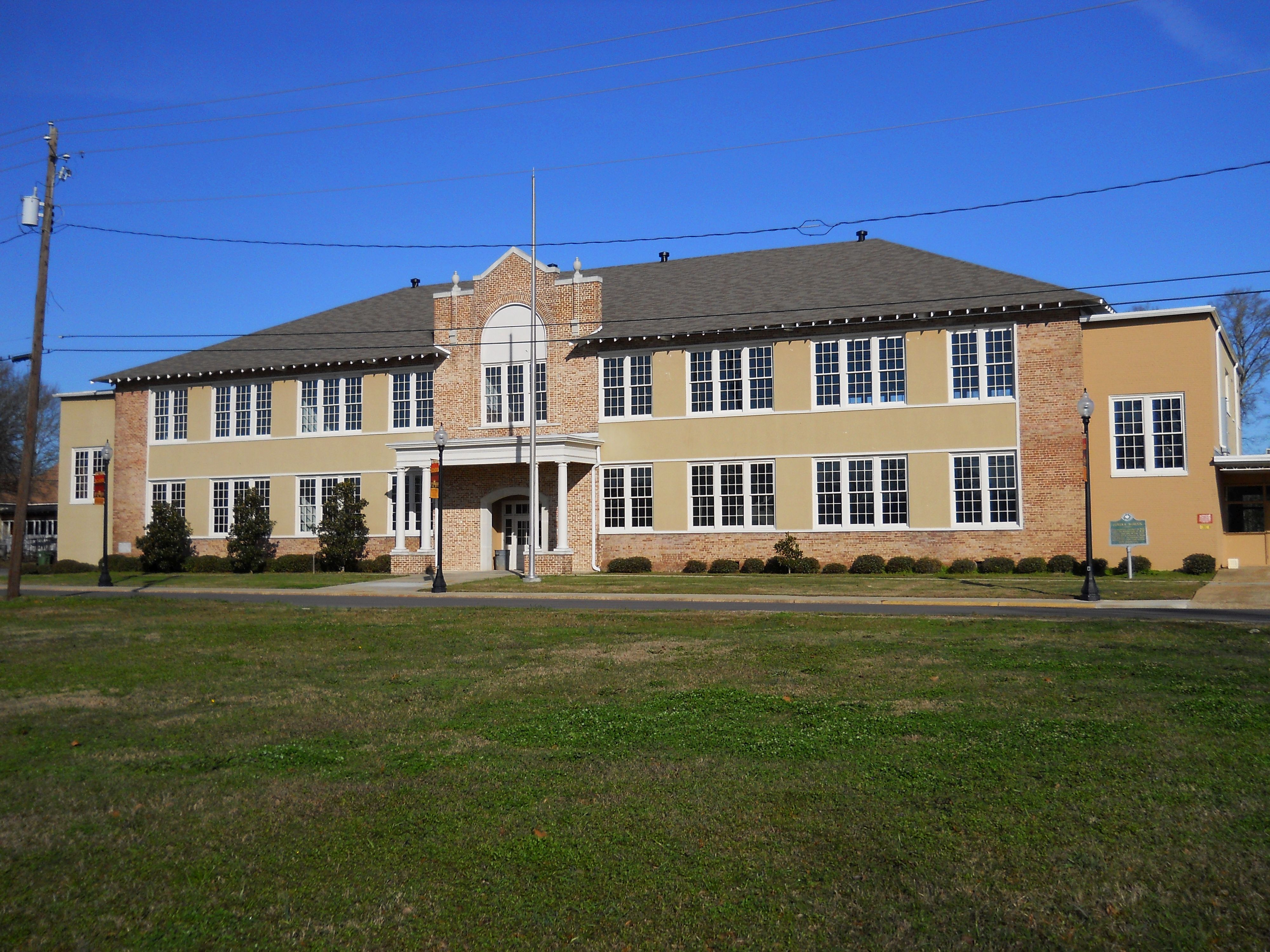 Front view of Eureka School in Hattiesburg, Mississippi, USA